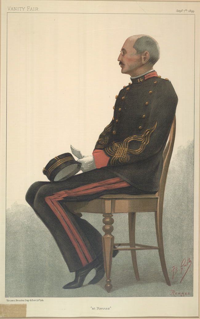 Caricature of Capt Alfred Dreyfus. Caption reads "at Rennes".